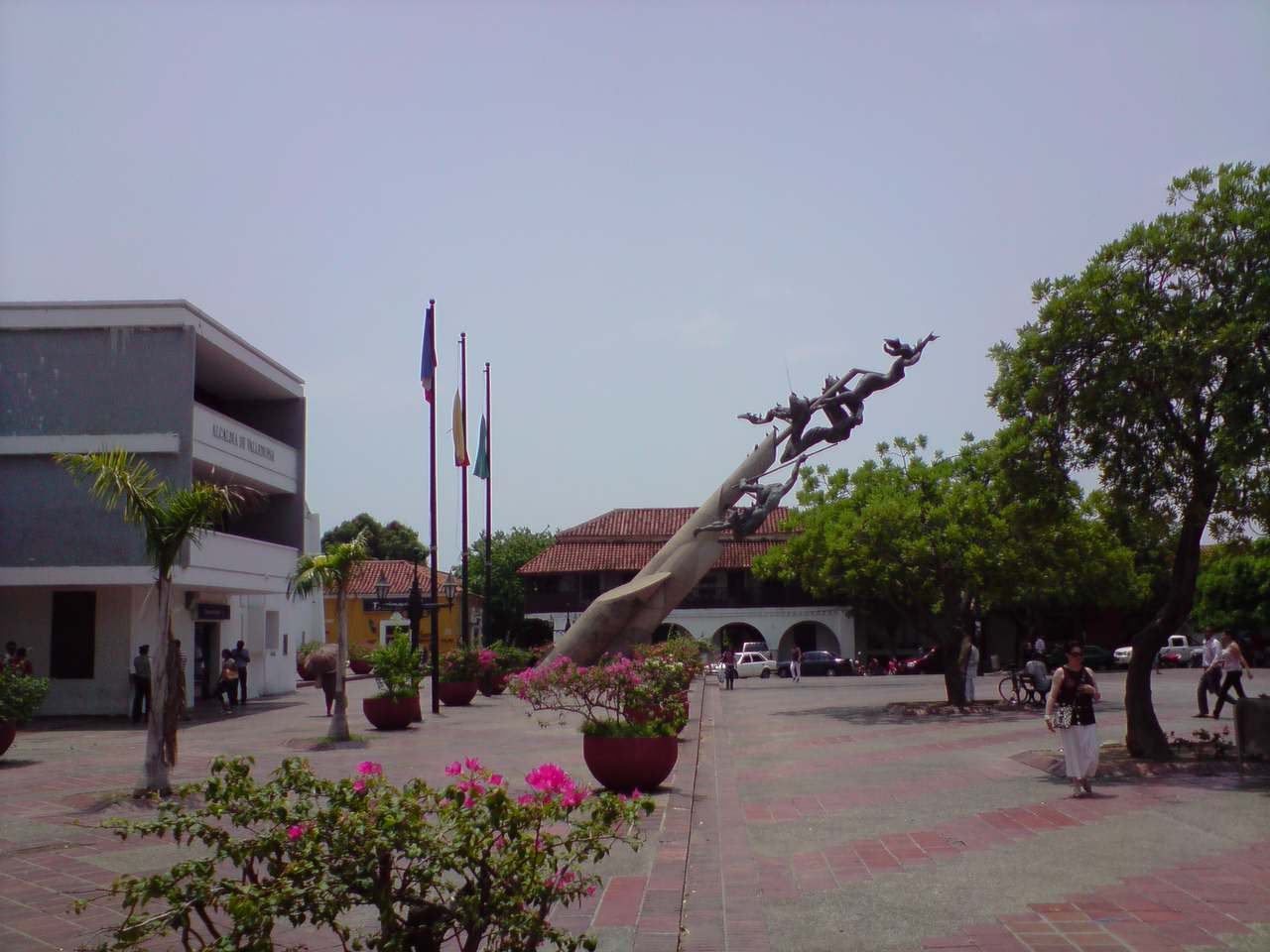 Alfonso Lopez Plaza, Valledupar, Colombia